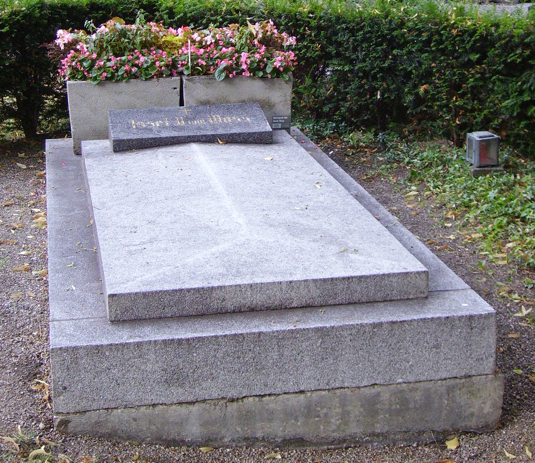 Josef Venantius von Wöss (1863-1943) Grave at the cemetery Hernals, Vienna